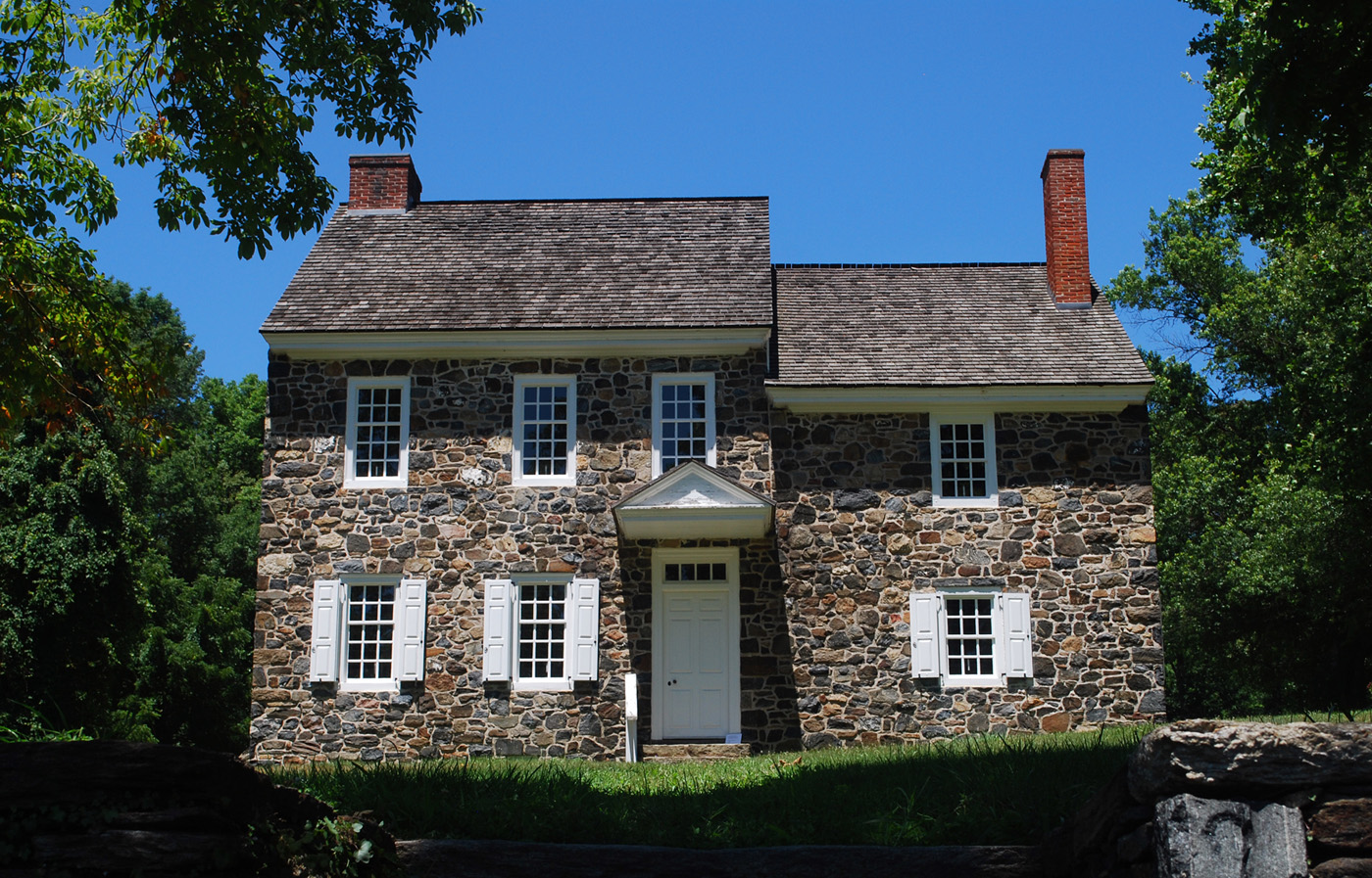 Headquarters of George Washington during the Battle of Brandywine.